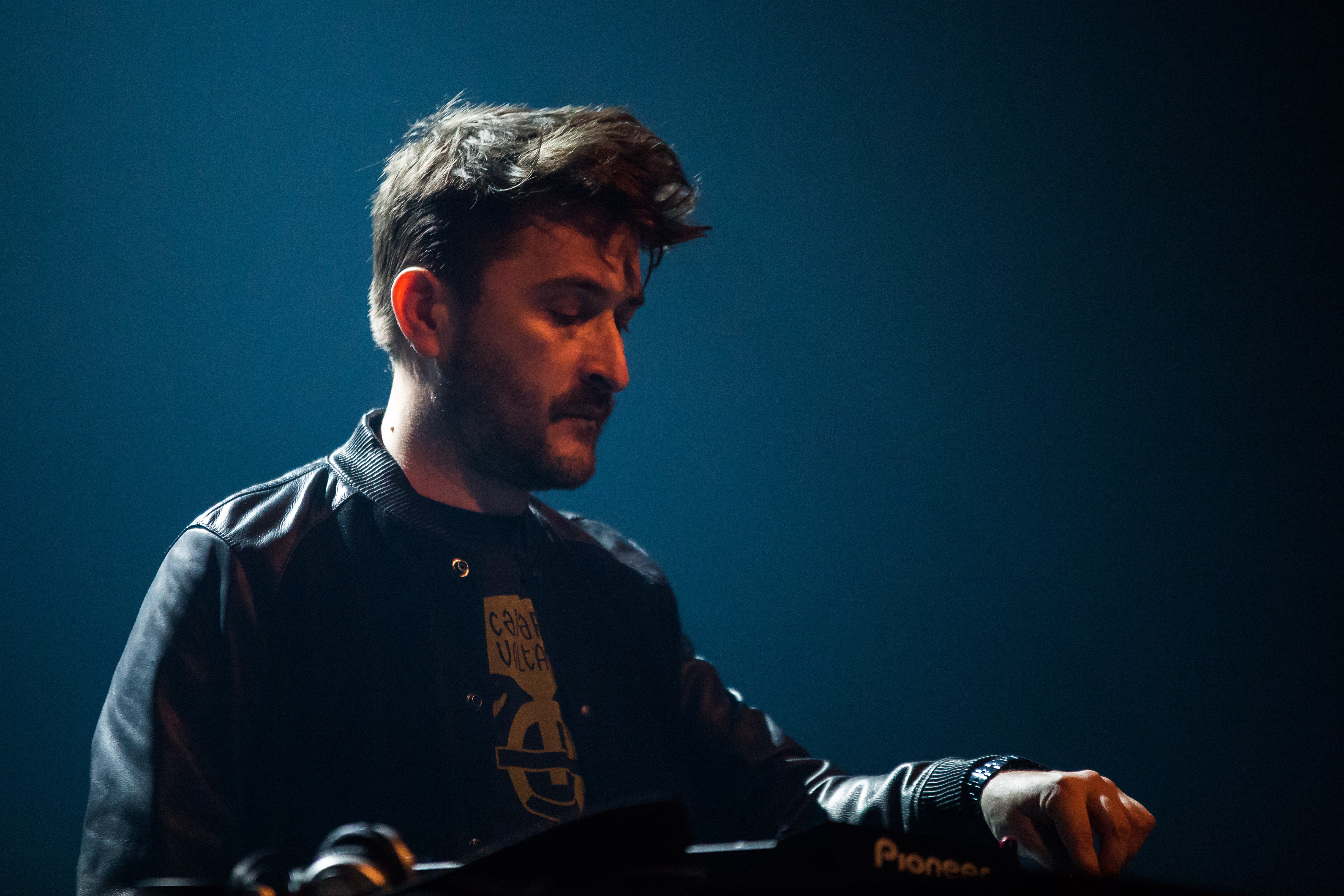 MUK.E 15 - aspects of electronic music September 13th, 2015. FZW, Dortmund